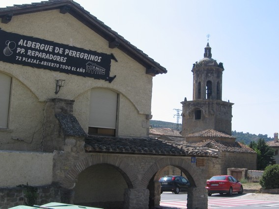 camino de santiago